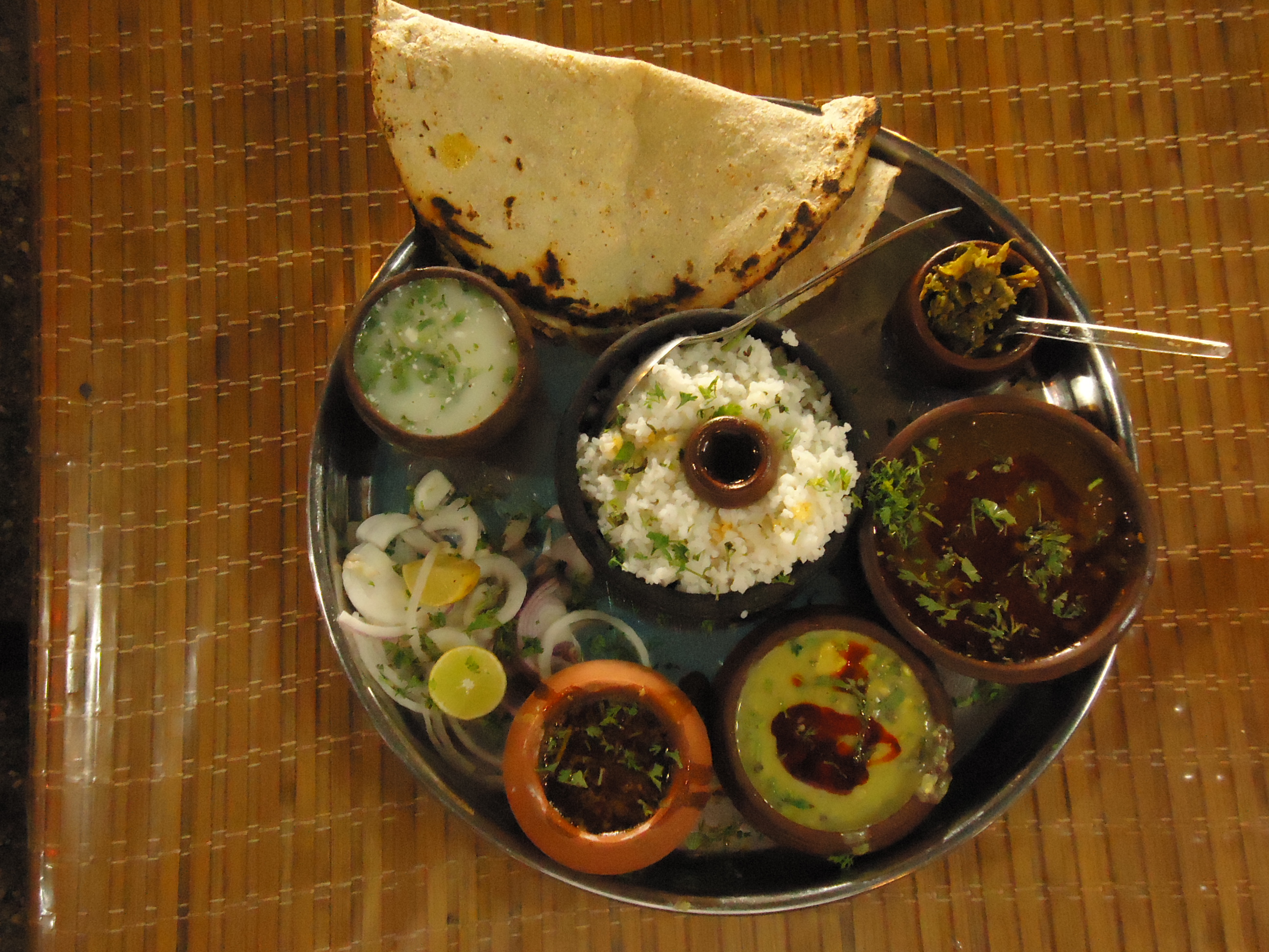 This is a staple diet for the people of Pune.